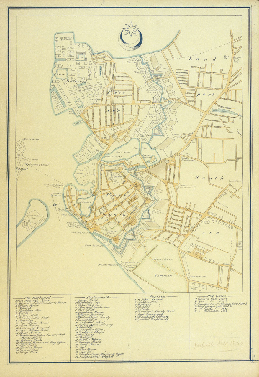 Plan of The Dockyard, Portsmouth and Portsea; etching, coloured